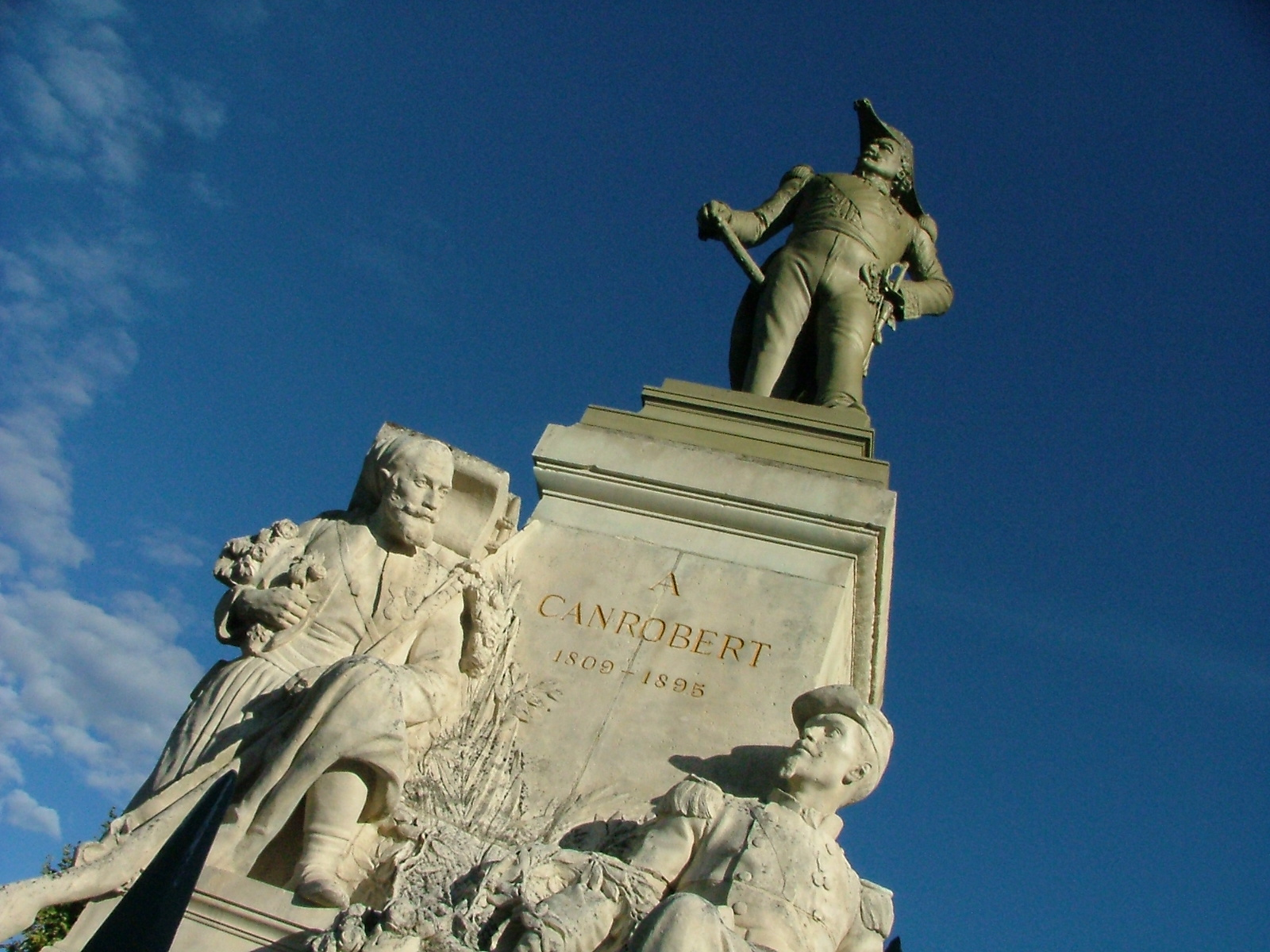 Charles Alfred Lenoir, Monument to the Marshal Canrobert, 1897, detail, Saint-Céré (Lot).